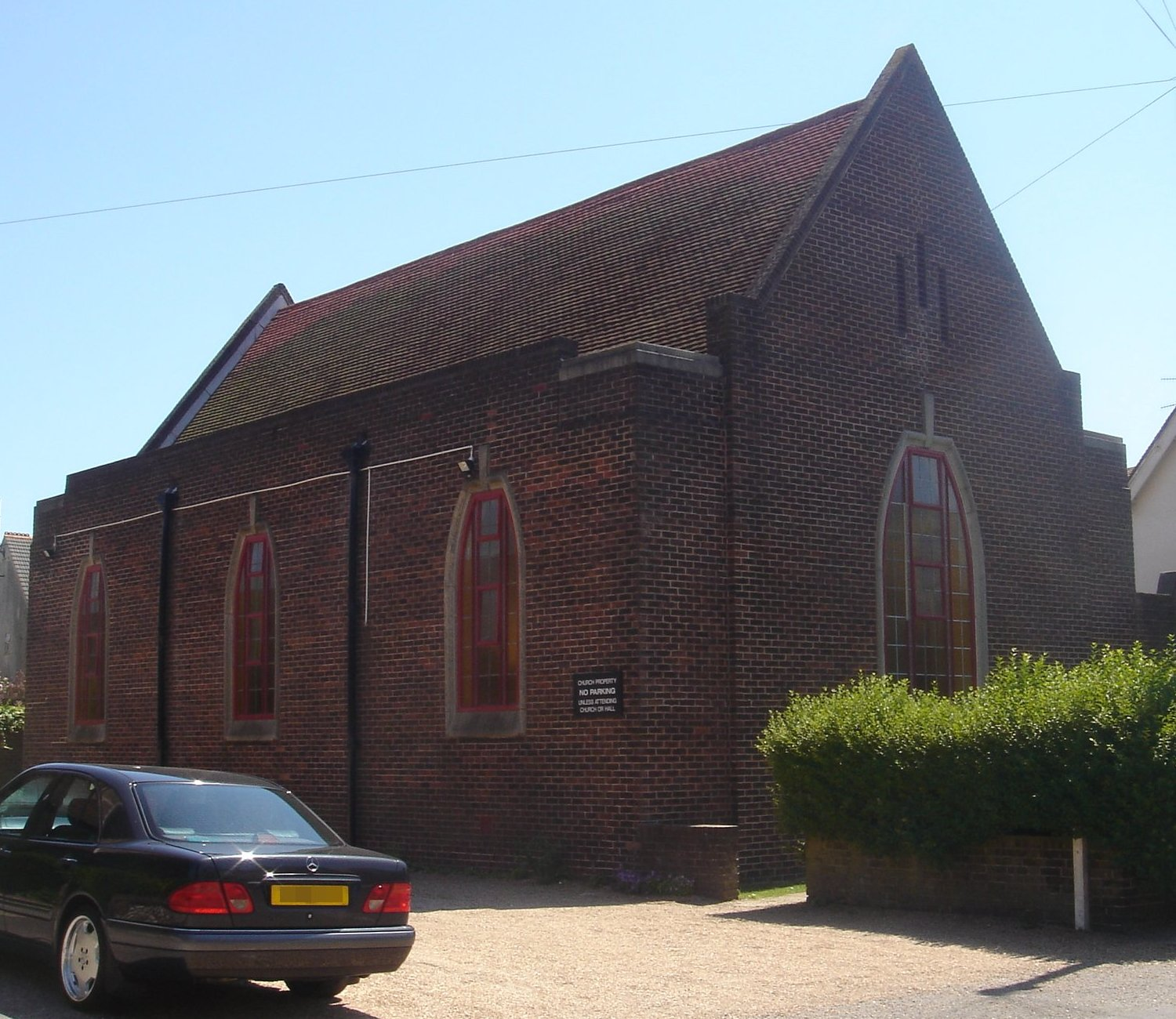 H. Overnell's 1935 church hall at St George's Church, St George's Road, Worthing, West Sussex, England.